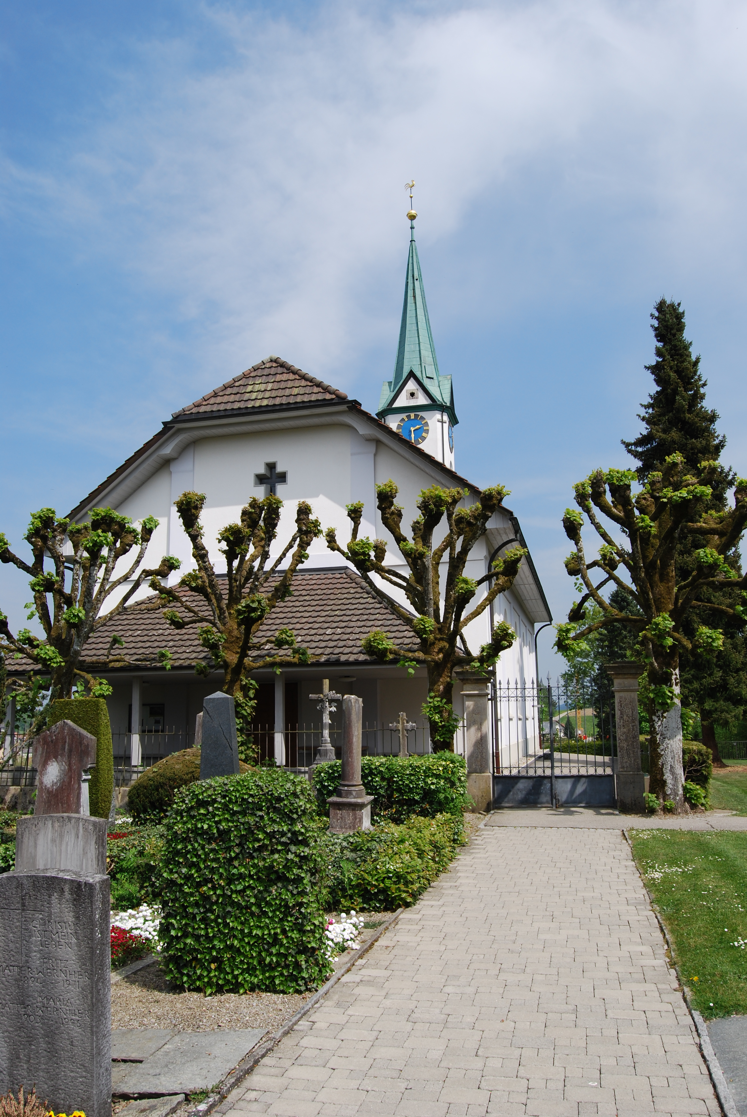 Church of Safenwil, canton of Aargau, SwitzerlandEsperanto: Preĝejo de Safenwil, Kantono Argovio, Svislando